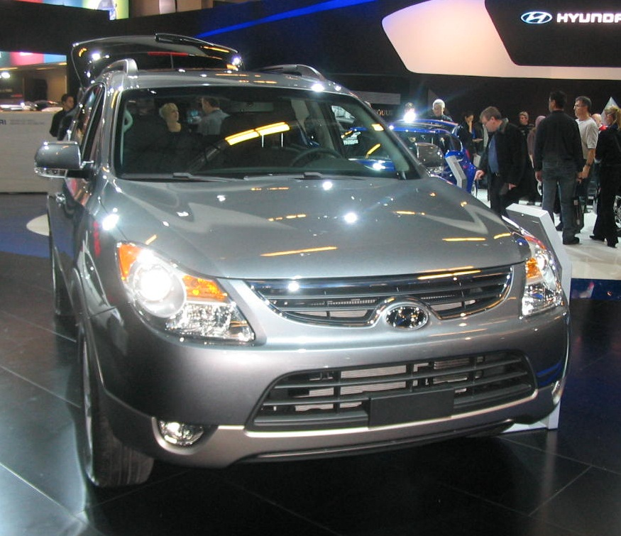 2012 Hyundai Veracruz photographed in Montreal, Quebec, Canada at the 2012 Montreal International Auto Show.